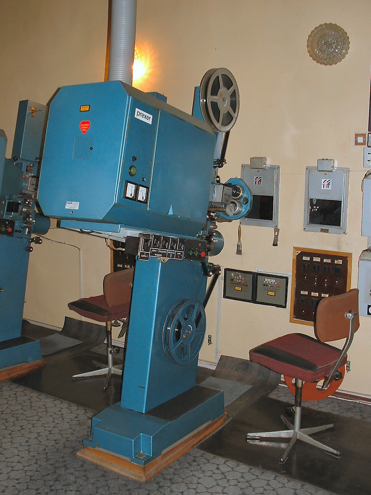 Polish brand, professional 35mm cinema projector - PREXER AP621 (Warsaw cinema in city Gdynia)